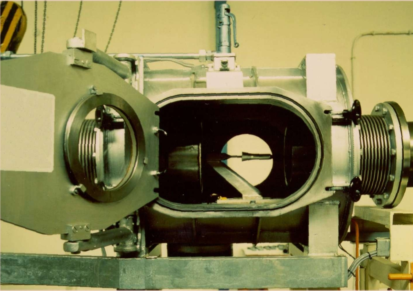 Hypersonic wind tunnel T-37 in Žarkovo, Serbia